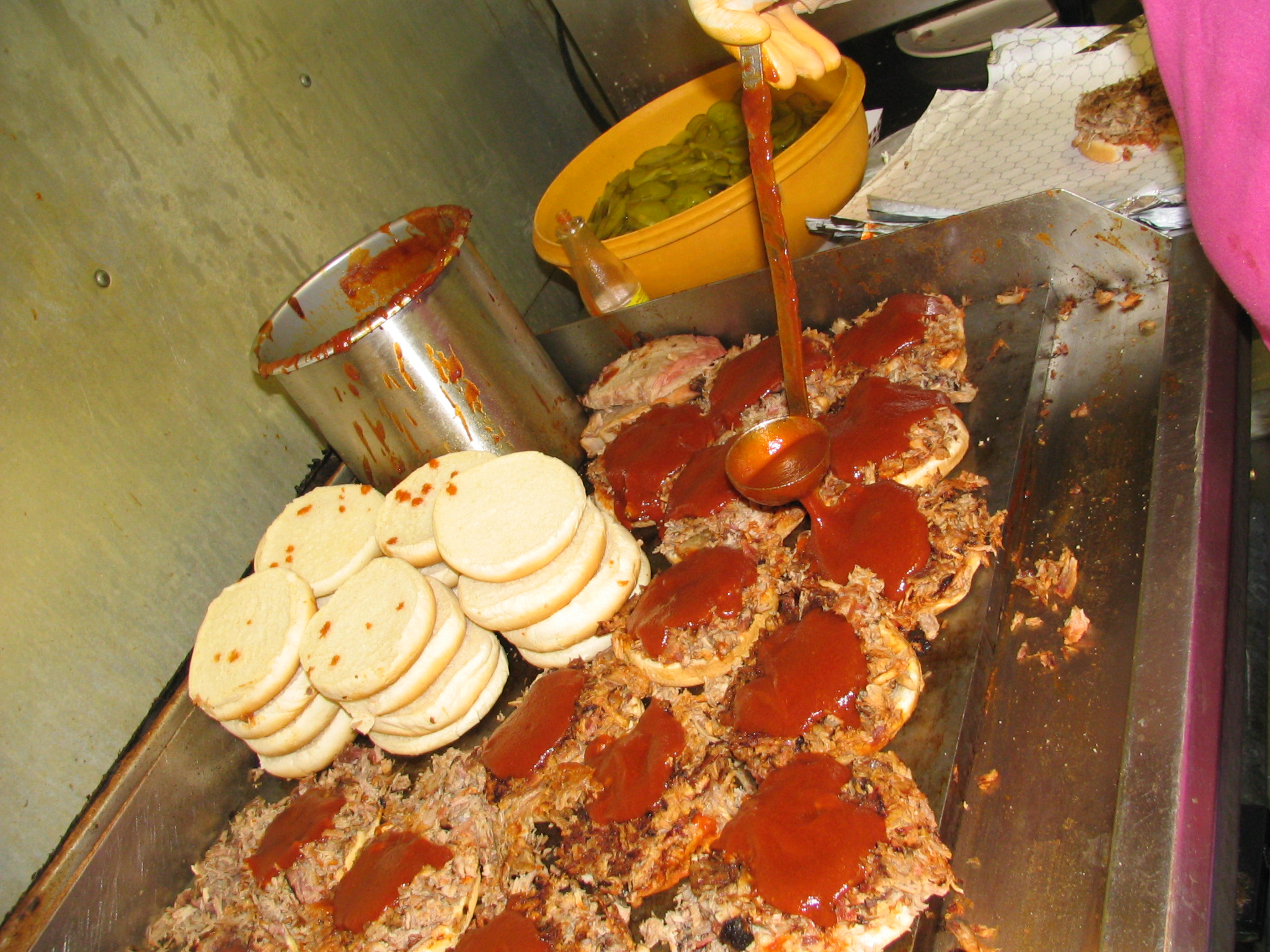 Leo & Susie's Famous Green Top Bar-B-Que - Dora, AL Photo by Amy C Evans, SFA oral historian October 2006